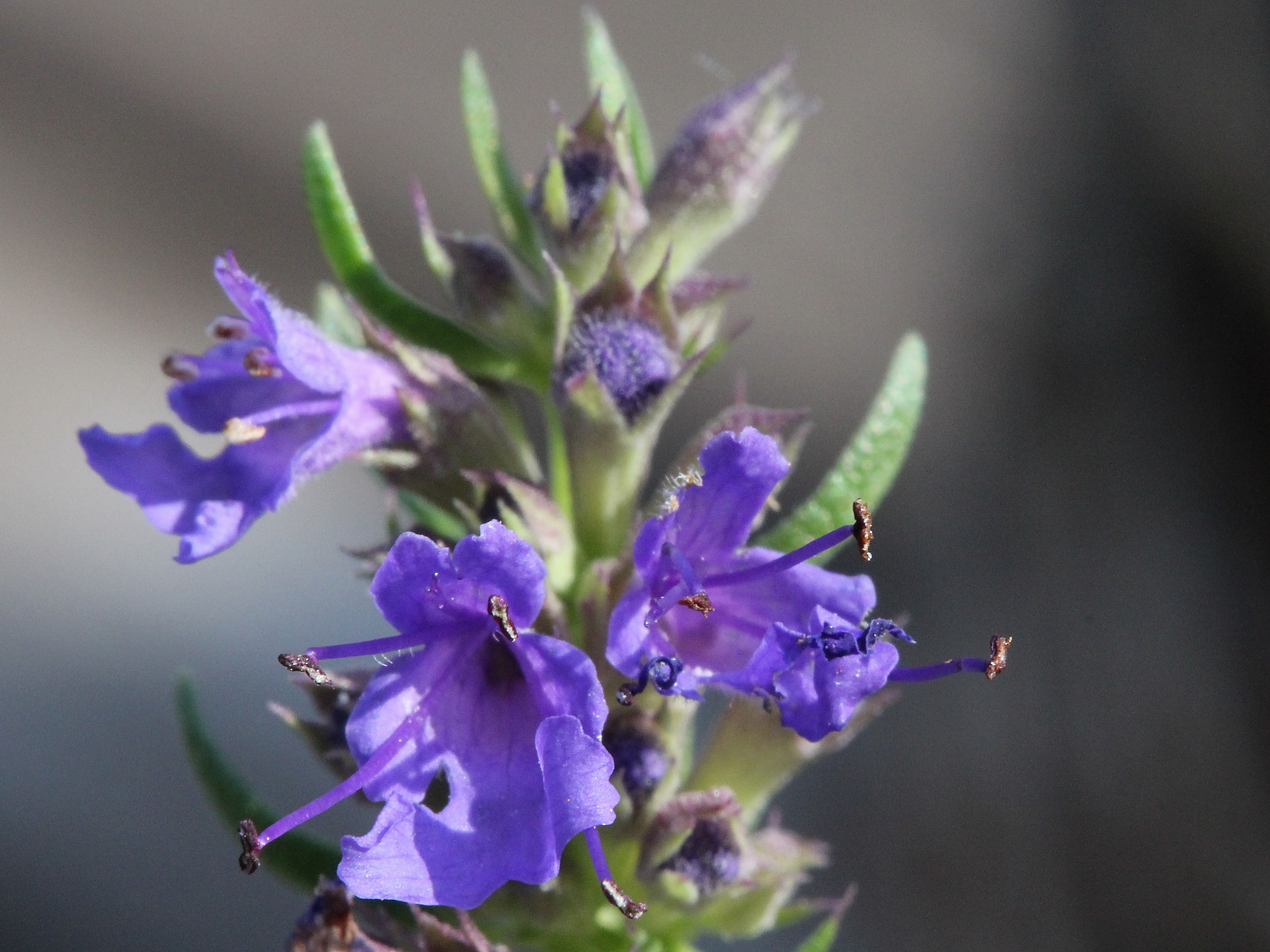 Herbarial plant, picture taken in private garden